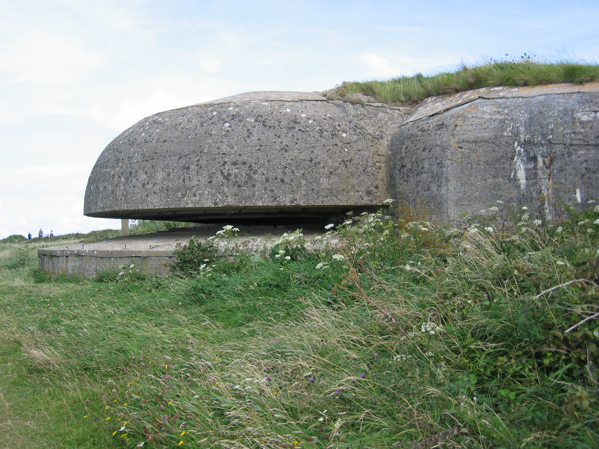 Side view of the type 636 Fire Control Post which directed six 155 mm captured French guns of the 420 type at Fécamp, Normandie, France.